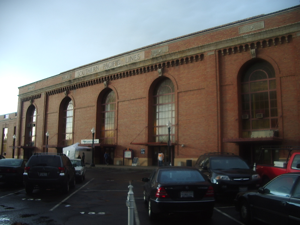 Sacramento Valley Station, on March 26, 2007. The station was designed by architects Bliss & Faville and opened in 1925.